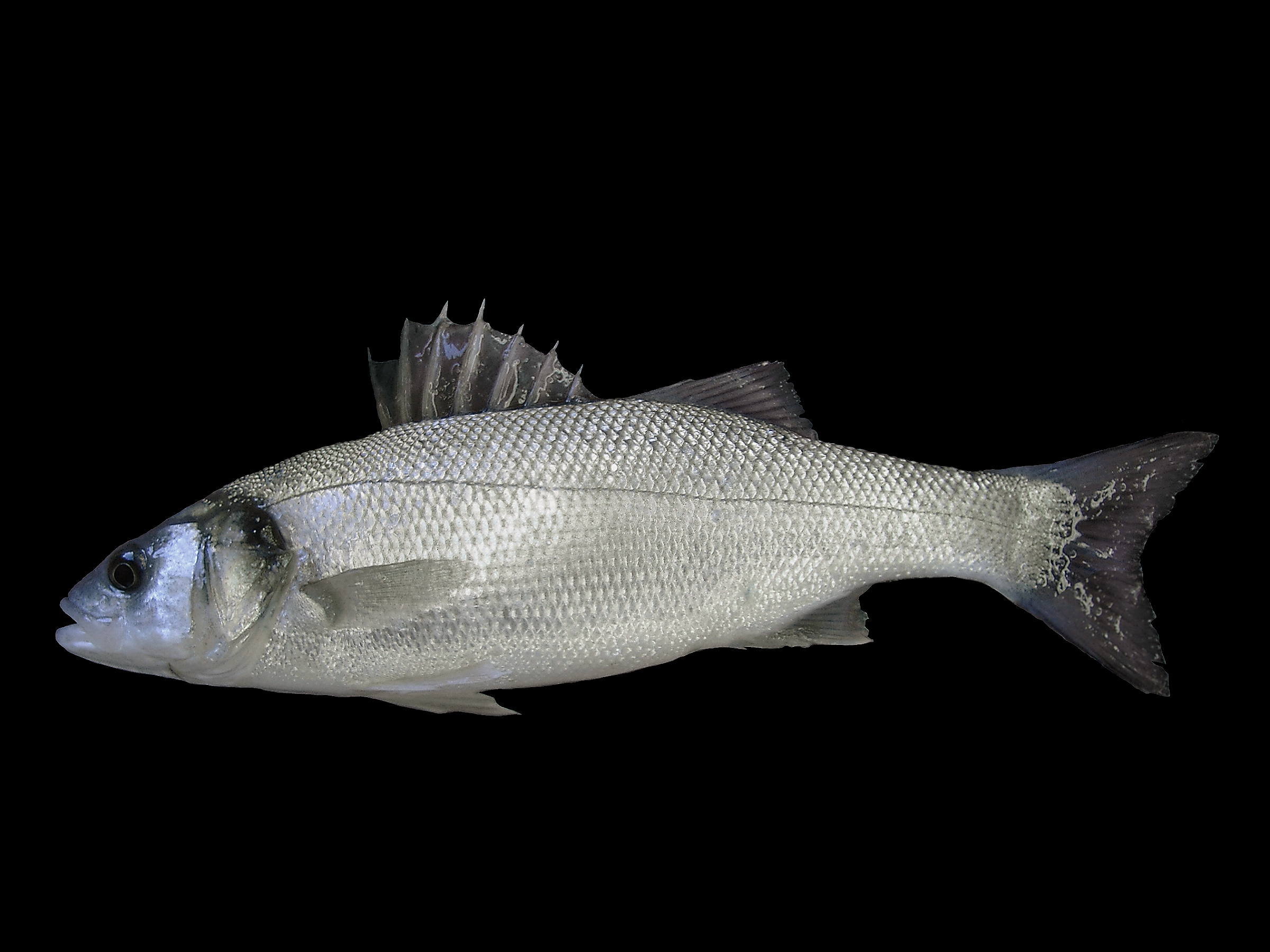 Seabass from the Belgian Continental Shelf.Lab image.